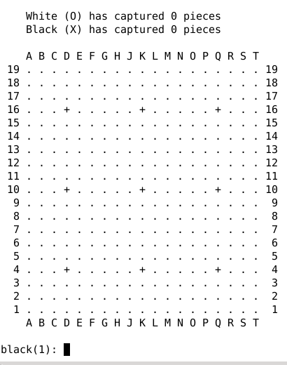 Screenshot